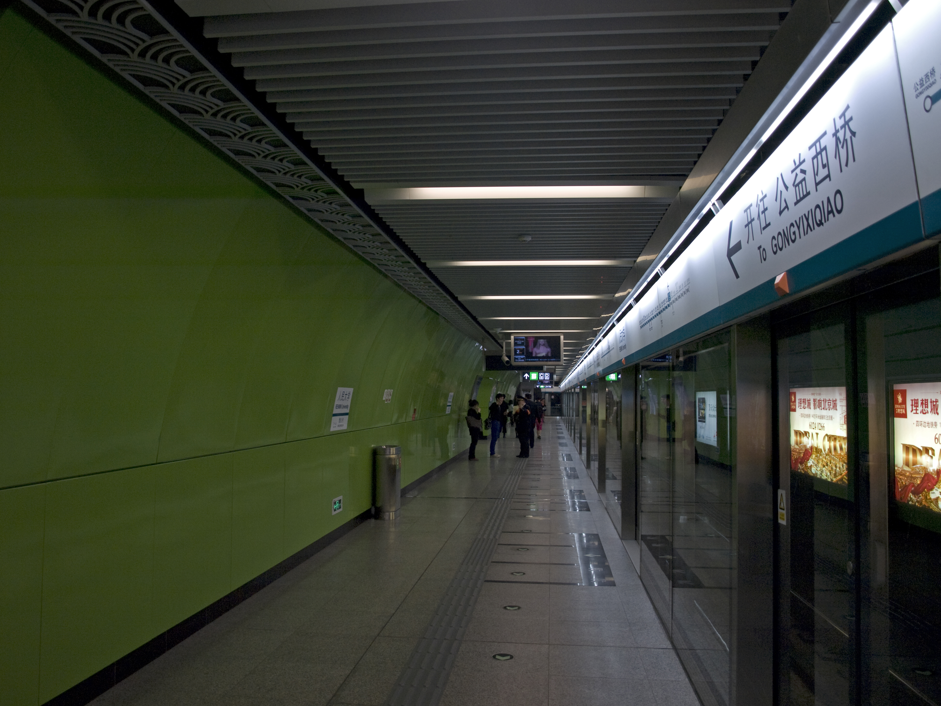 Renmin University station (Beijing subway)